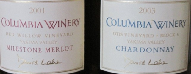 Two bottles (a Merlot & Chardonnay) of Columbia Winery wine from the Yakima Valley of Washington State with David Lake's signature on them